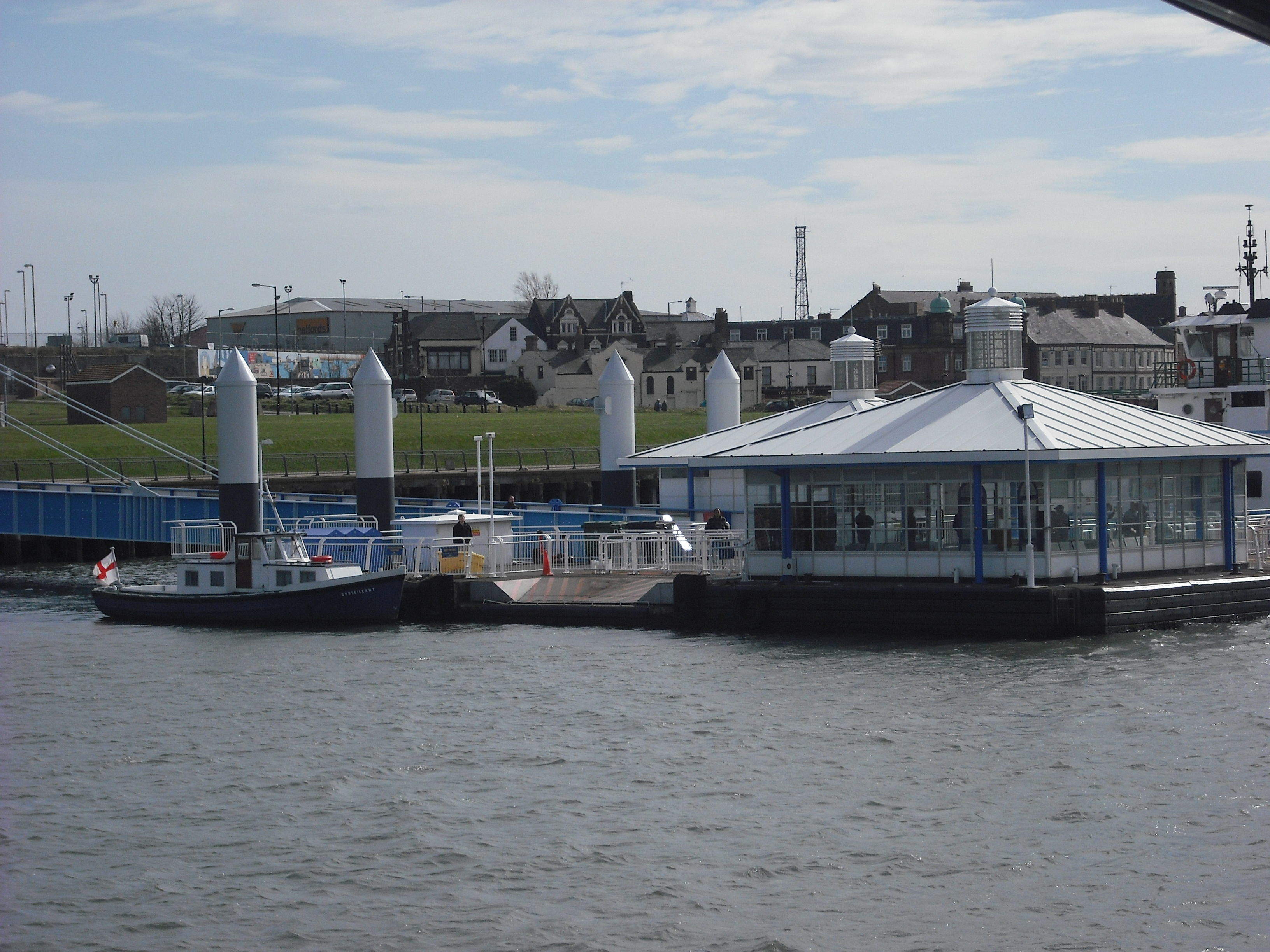 The South Shields side of the Shields Ferry passenger link across the mouth of the River Tyne (to North Shields). One of the ferries, Pride of the Tyne, is just about visible on the right - the small boat is the pilot's vessel Surveillant.